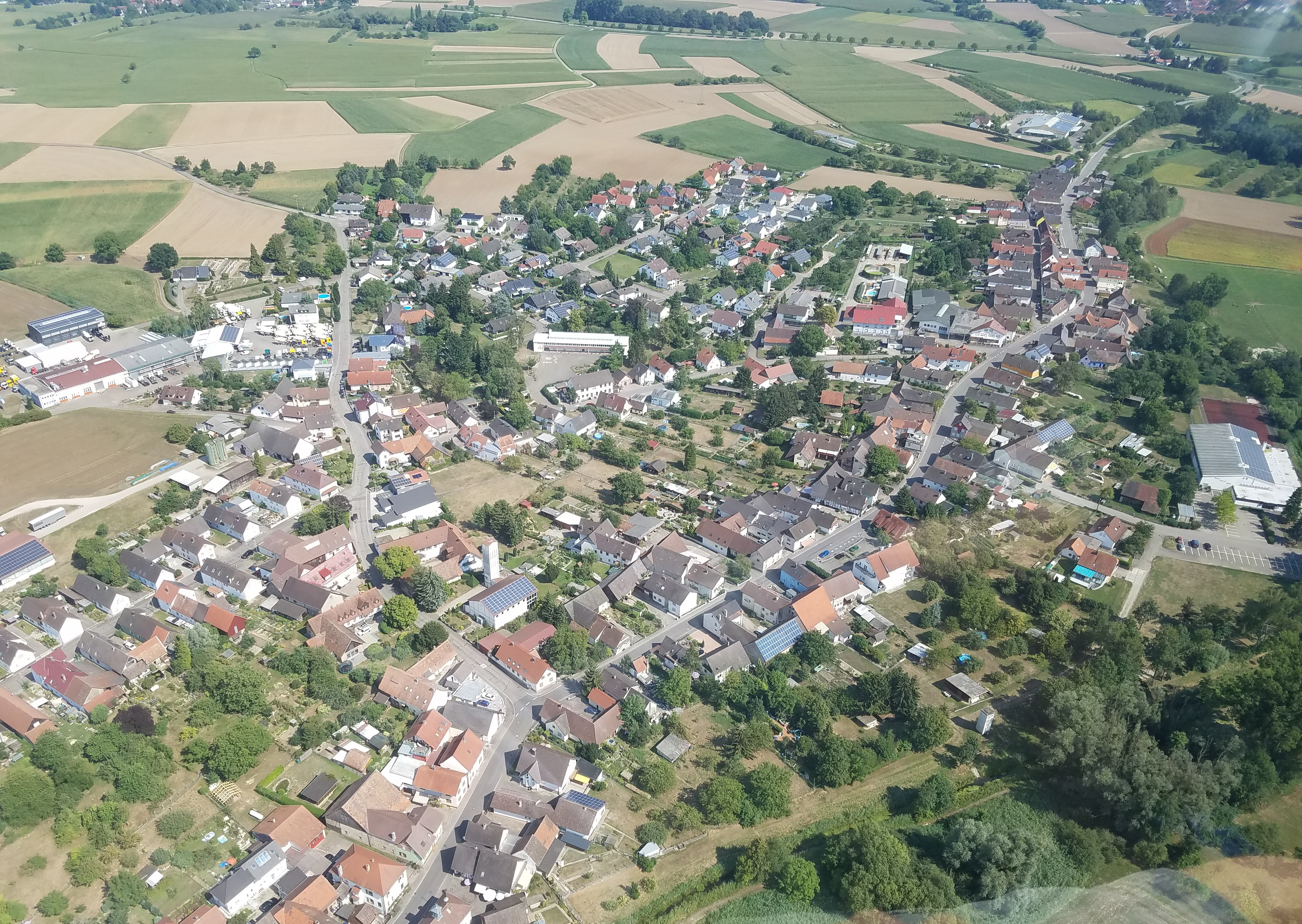 Aerial photo of the southeastern part of Helmlingen